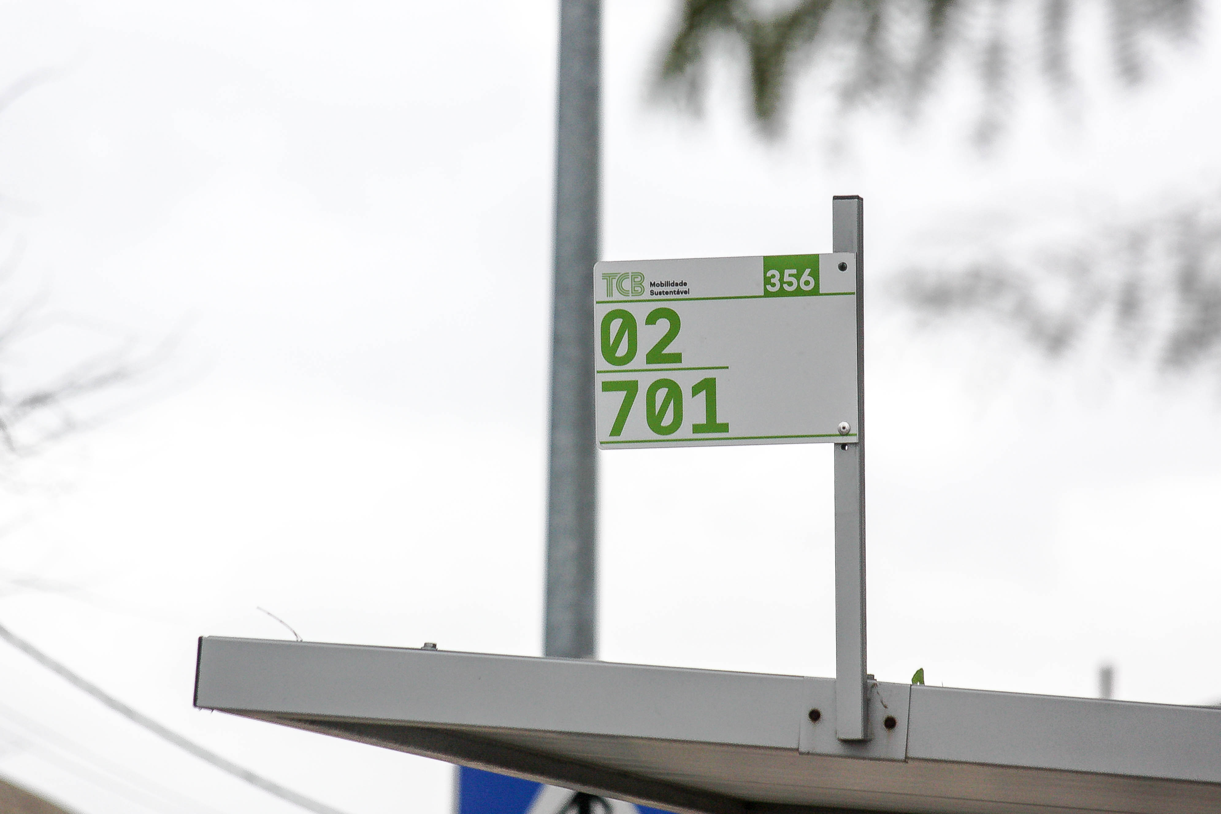 Bus stop sign on a TCB stop, indicating lines servicing it (02 and 702), as well as its number (356).